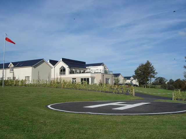 Helipad at Blessington Lakeside Resort